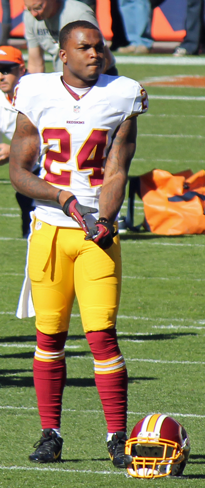 Bacarri Rambo, a player on the National Football League.